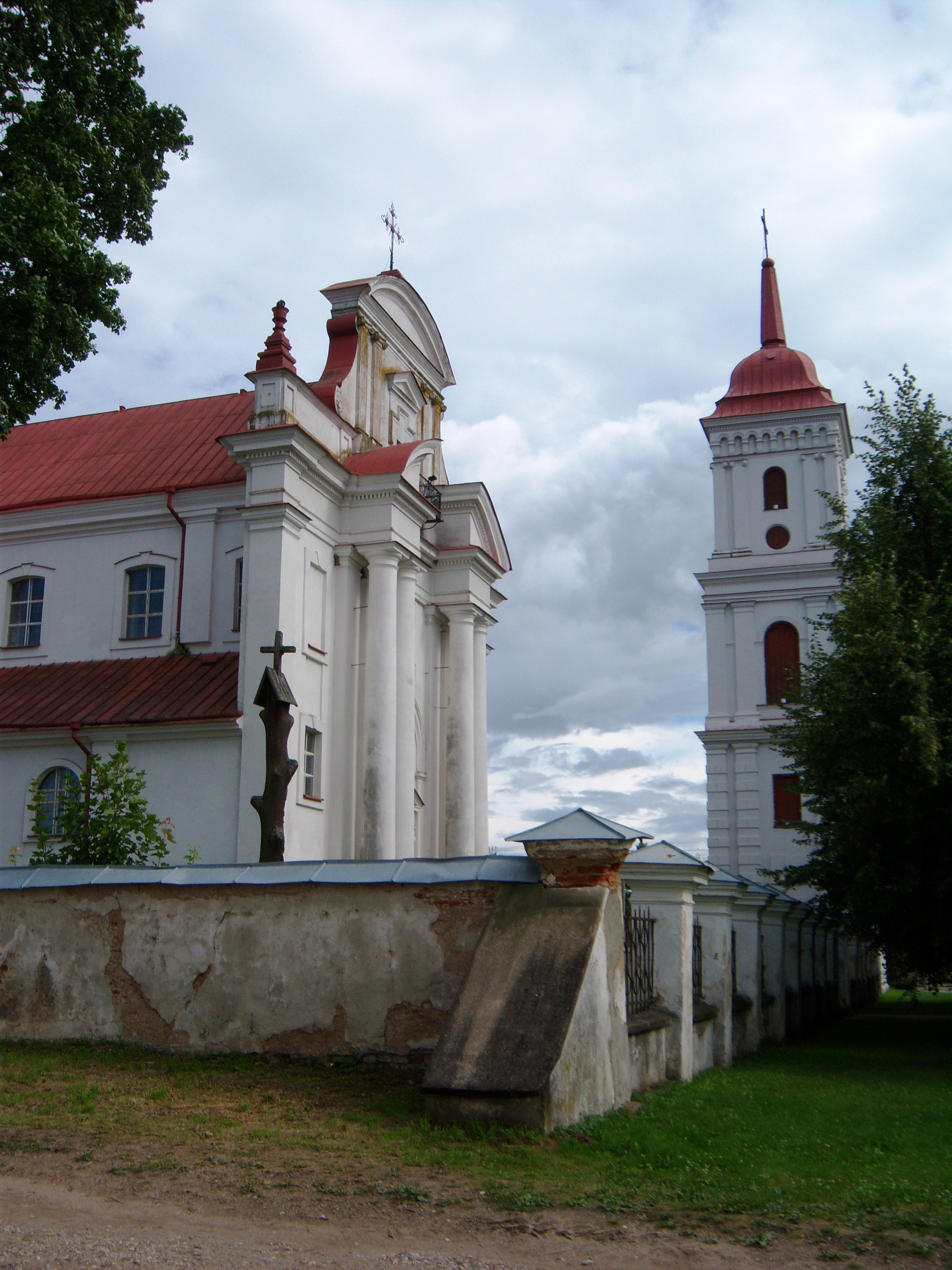 Troškūnai church, Anykščiai District. Lithuania